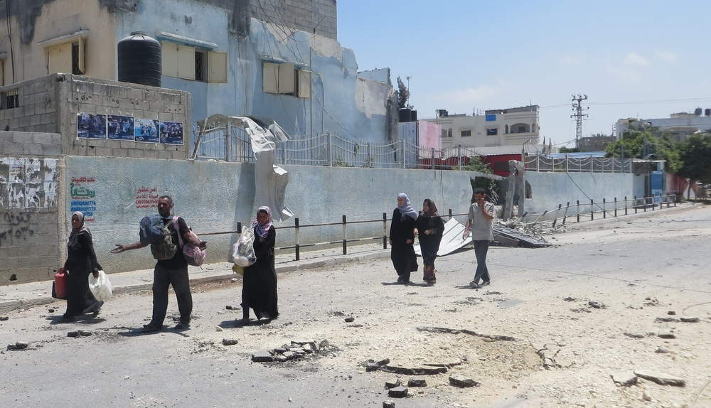 Brief humanitarian ceasefire in Beit Hanun, 26 July 2014 Muhammad Sabah is B'Tselem's field researcher in the northern Gaza Strip. On 26 July 2014, he took the opportunity of a brief humanitarian ceasefire to inspect several locations in the area. He described the sights he saw during the ceasefire: "People headed to markets to stock up on food and other essentials. Some people went to check on their families and others went to see their homes, which had been bombed and destroyed, especially in the eastern parts of the Gaza Strip. Some people were searching for the bodies of relatives. Others were trying to salvage belongings. […] I saw women and children crying, forced to say goodbye to parents and other relatives whose bodies couldn't be removed from under the massive wreckage. The bodies were trapped under bits of concrete that were scattered everywhere. […]" Of the sights he saw in the town of Beit Hanoun during the ceasefire he said: "The situation in Beit Hanoun was terrible. I saw people trying to take a few belongings and get out of there as fast as they could in view of several days of artillery fire. They were also afraid of the ground incursion and because of the UNRWA school and the hospital in Beit Hanoun that had been hit." Sabah took the following photos in Beit Hanoun, that day.